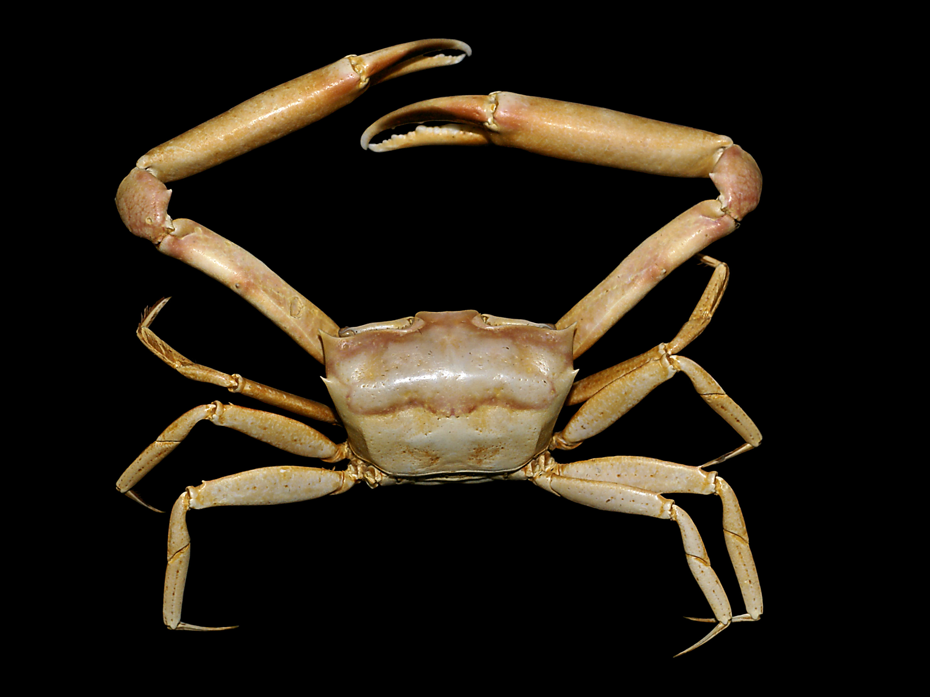 Angular crab from the Southern North Sea.